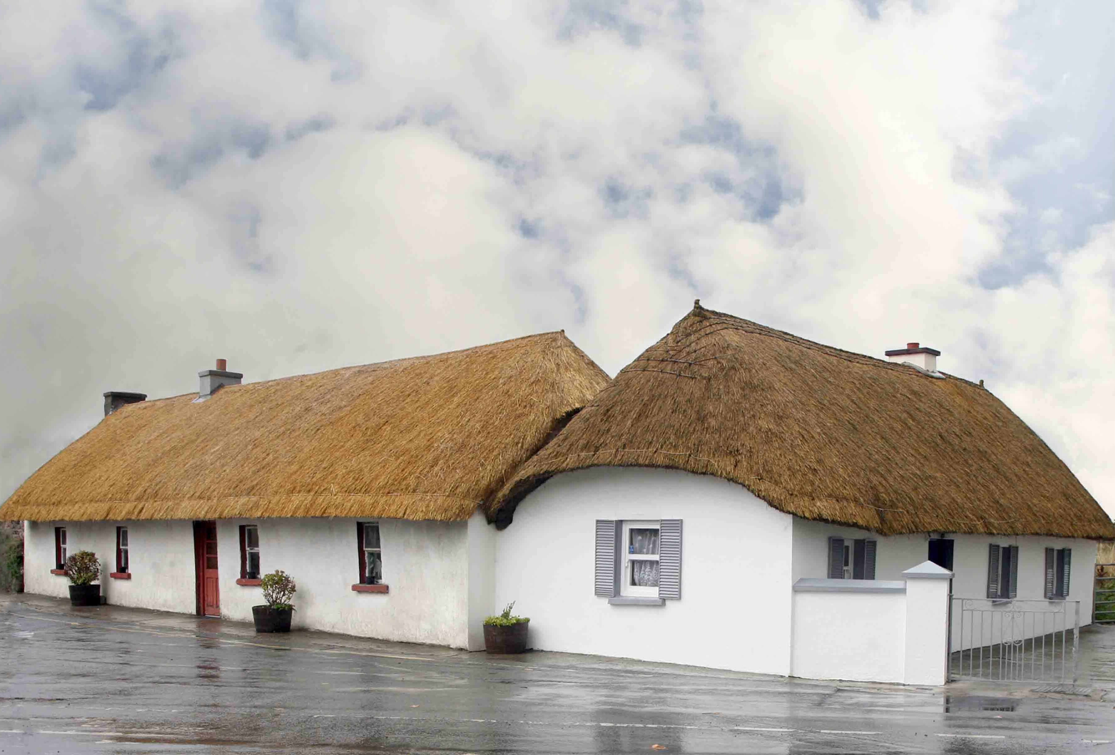 Clogh a heritage village.